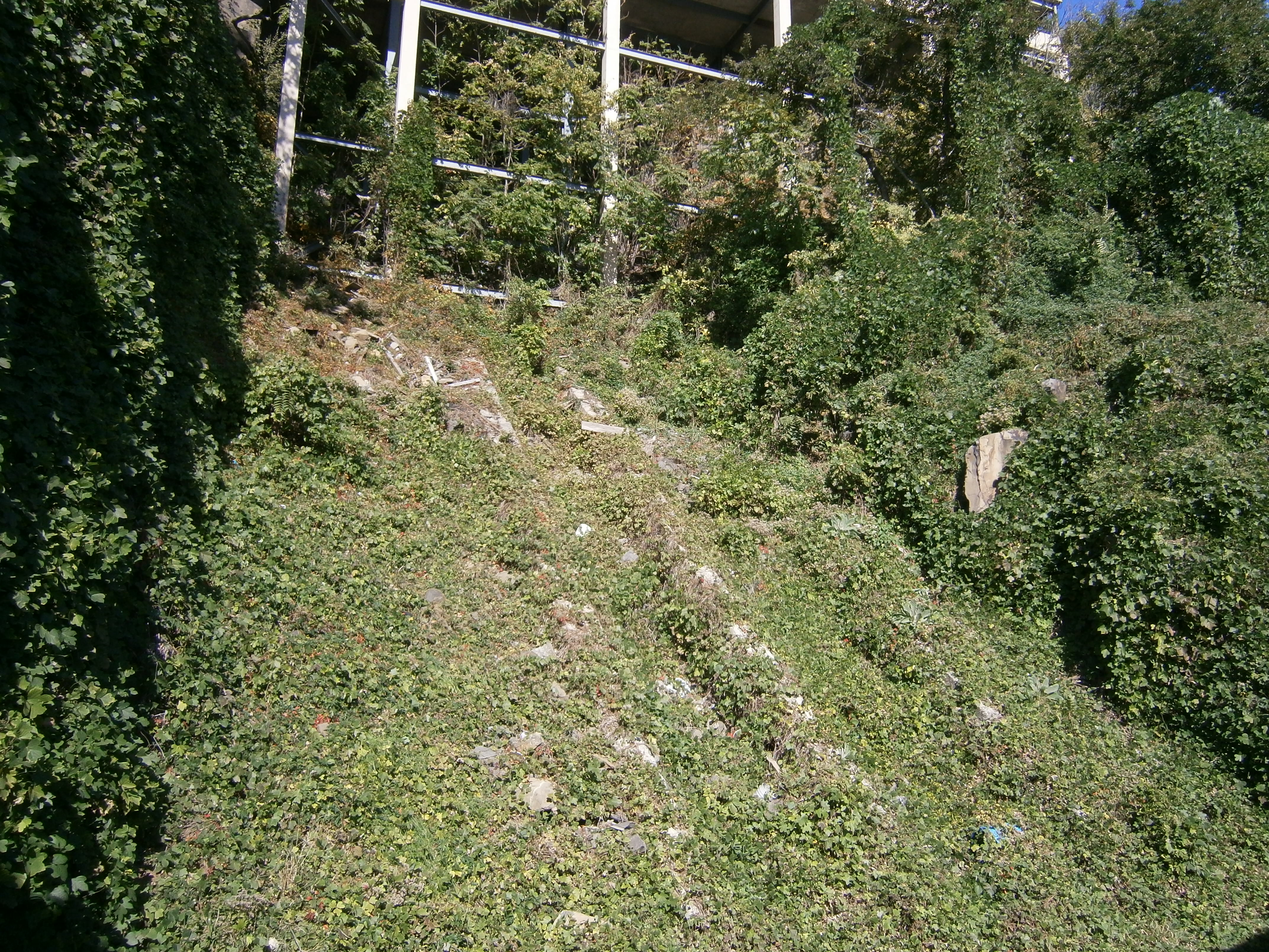 North Hudson County Railway-Weehawken Wagen Lift- Hackensack Plank Road and West Hoboken along the Palisades